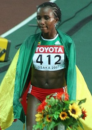 World Athletics Championships 2007 in Osaka - Women's 10000 Meter Champion Tirunesh Dibaba celebrating